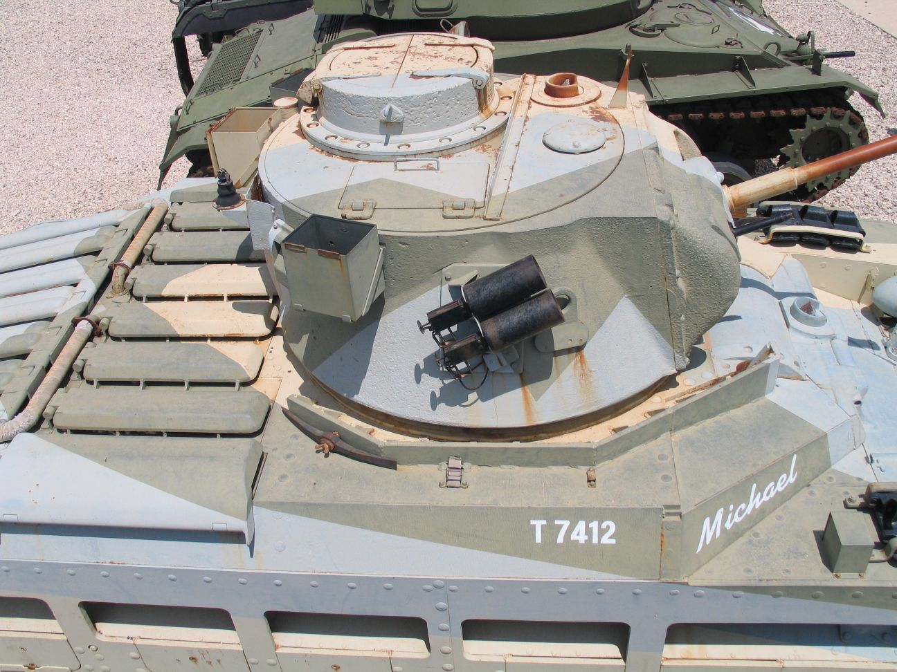 Infantry Tank Mk II Matilda in Yad la-Shiryon Museum, Israel.